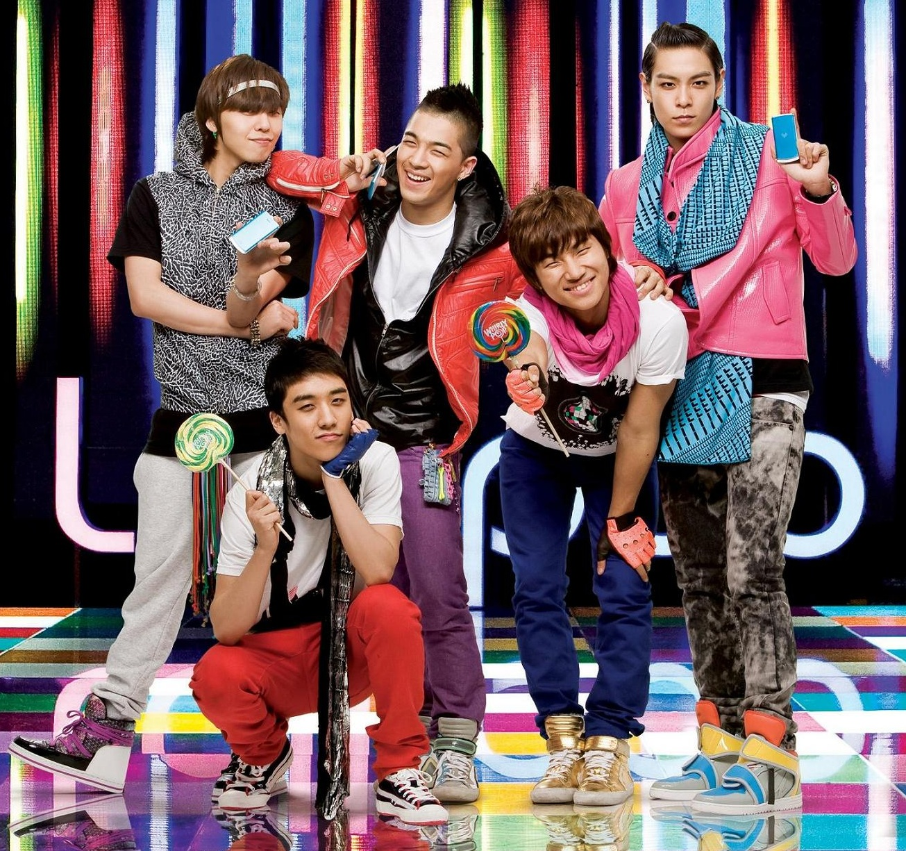 Korean boy band Big Bang in 2009